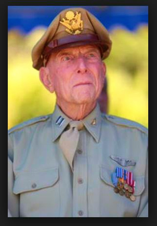 Captain Jerry Yellin, United States Army Air Forces, the P-51 pilot who flew the final combat mission of World War II.